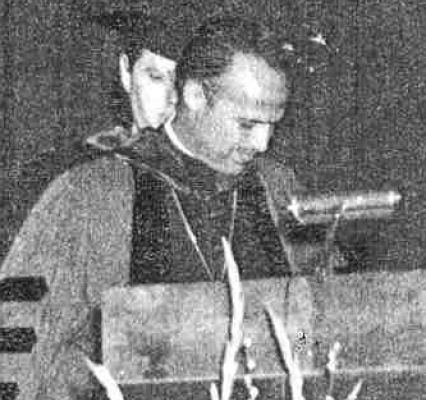 Episcopal bishop James W. Montgomery receiving an honorary Doctor of Laws degree at Shimer College, where he served as Trustee, at an honors convocation on March 5, 1968. This work is in the public domain because it was published in the United States between 1923 and 1977 and without a copyright notice. Unless its author has been dead for several years, it is copyrighted in jurisdictions that do not apply the rule of the shorter term for US works, such as Canada (50 p.m.a.), Mainland China (50 p.m.a., not Hong Kong or Macao), Germany (70 p.m.a.), Mexico (100 p.m.a.), Switzerland (70 p.m.a.), and other countries with individual treaties. See this page for further explanation.